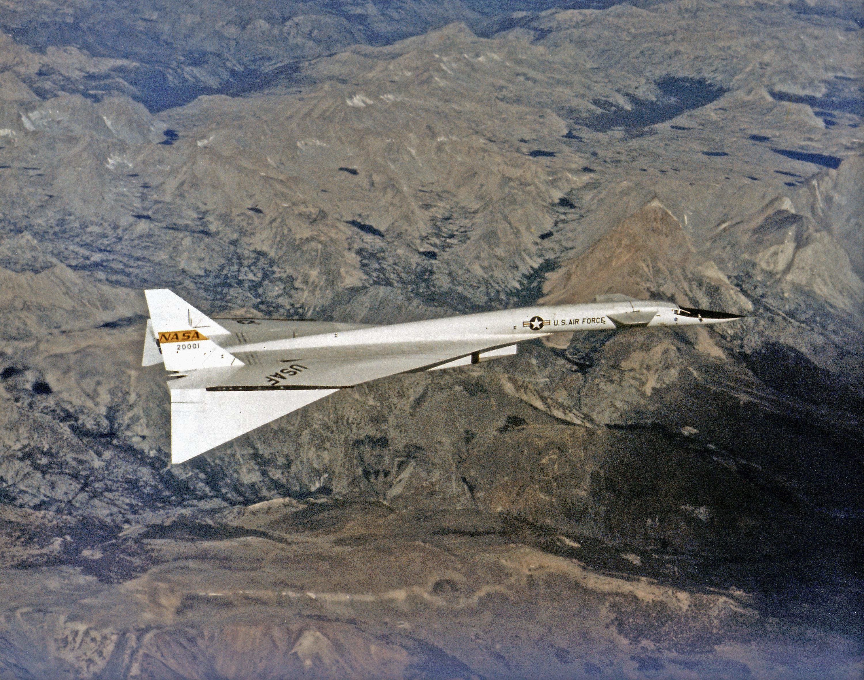 The #1 XB-70A (62-0001) is viewed from above in cruise configuration with the wing tips drooped for improved controllability. The XB-70A, capable of flying three times the speed of sound, was the world's largest experimental aircraft in the 1960s. Two XB-70A aircraft were built. Ship #1 was flown by the NASA Flight Research Center, Edwards, CA, in a high-speed flight research program.